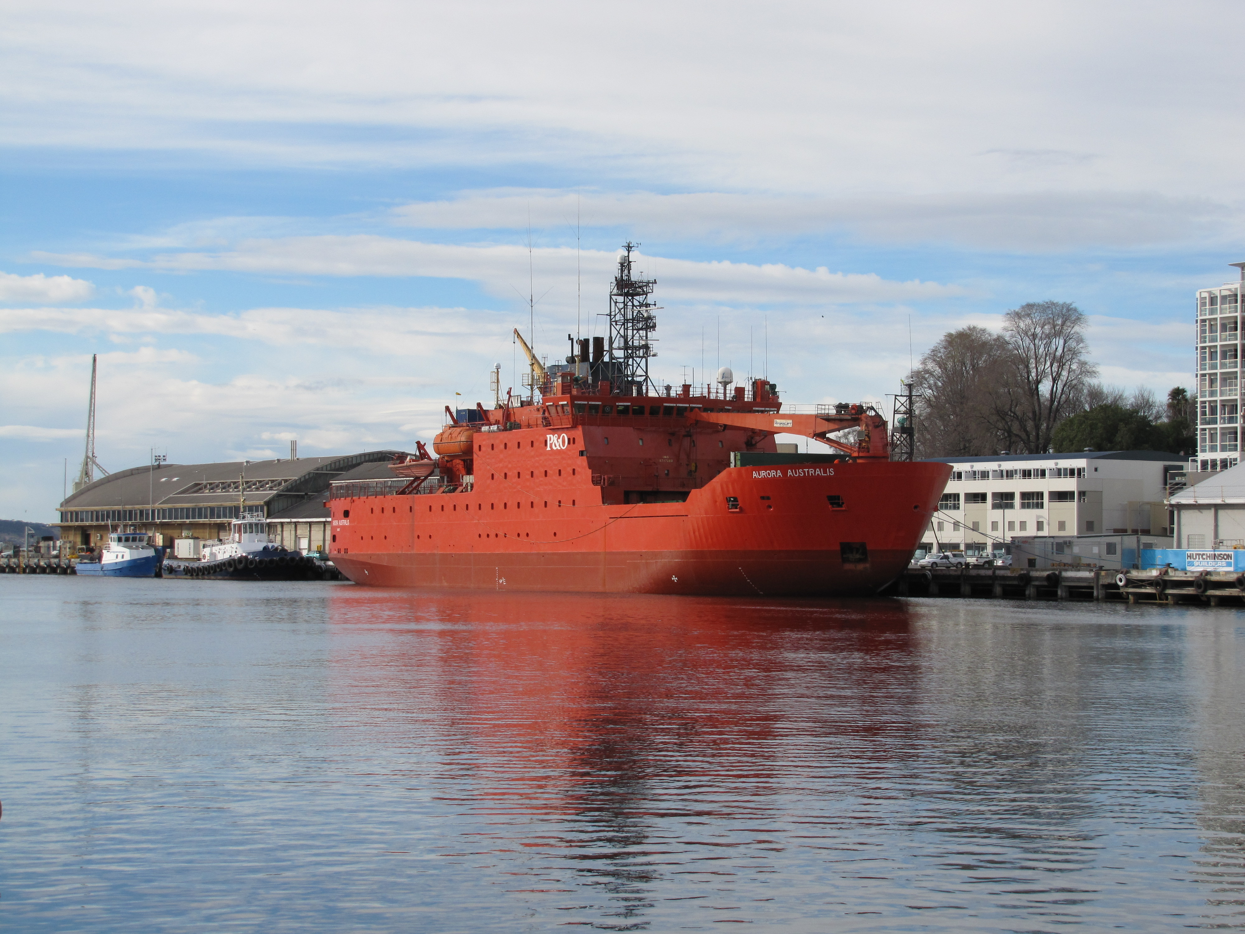 Aurora Australis is an icebreaker under the command of the Australian Antarctic Division docked here in Hobart.